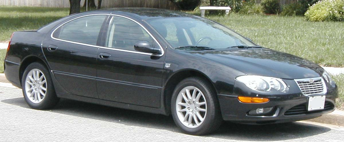 1999-2004 Chrysler 300M photographed in USA.